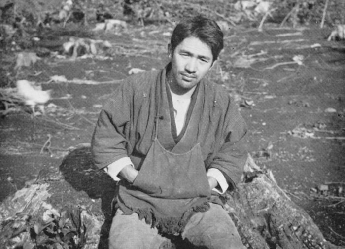 Matuda Jinjiro, a writer, a follower of Kenji Miyazawa and publishing his works.